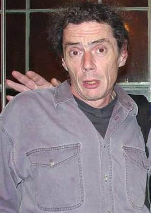 Barry Mason & Jonathan Ott October 2002. Glastonbury UK, original photo by DreaMaTrix Barry Mason & Jonathan Ott October 2002. Glastonbury UK, original photo by DreaMaTrix